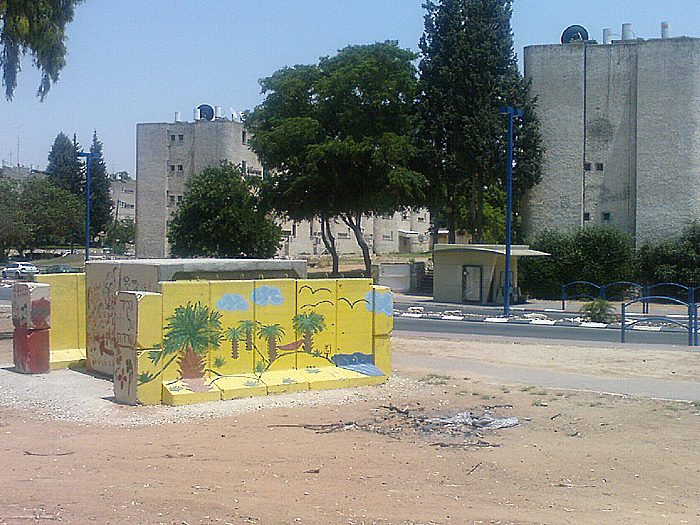 street bomb shelter (foreground) - bus stop bomb shelter (background)